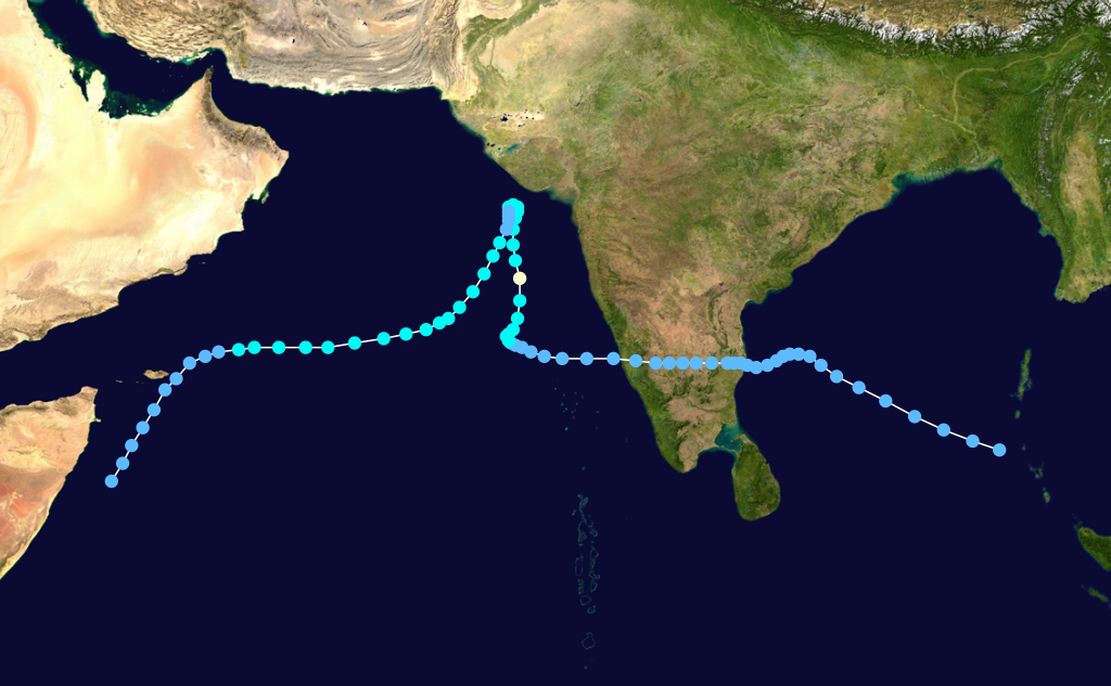 Cyclone 05A 1996 track. Uses the color scheme from the Saffir-Simpson Hurricane Scale.